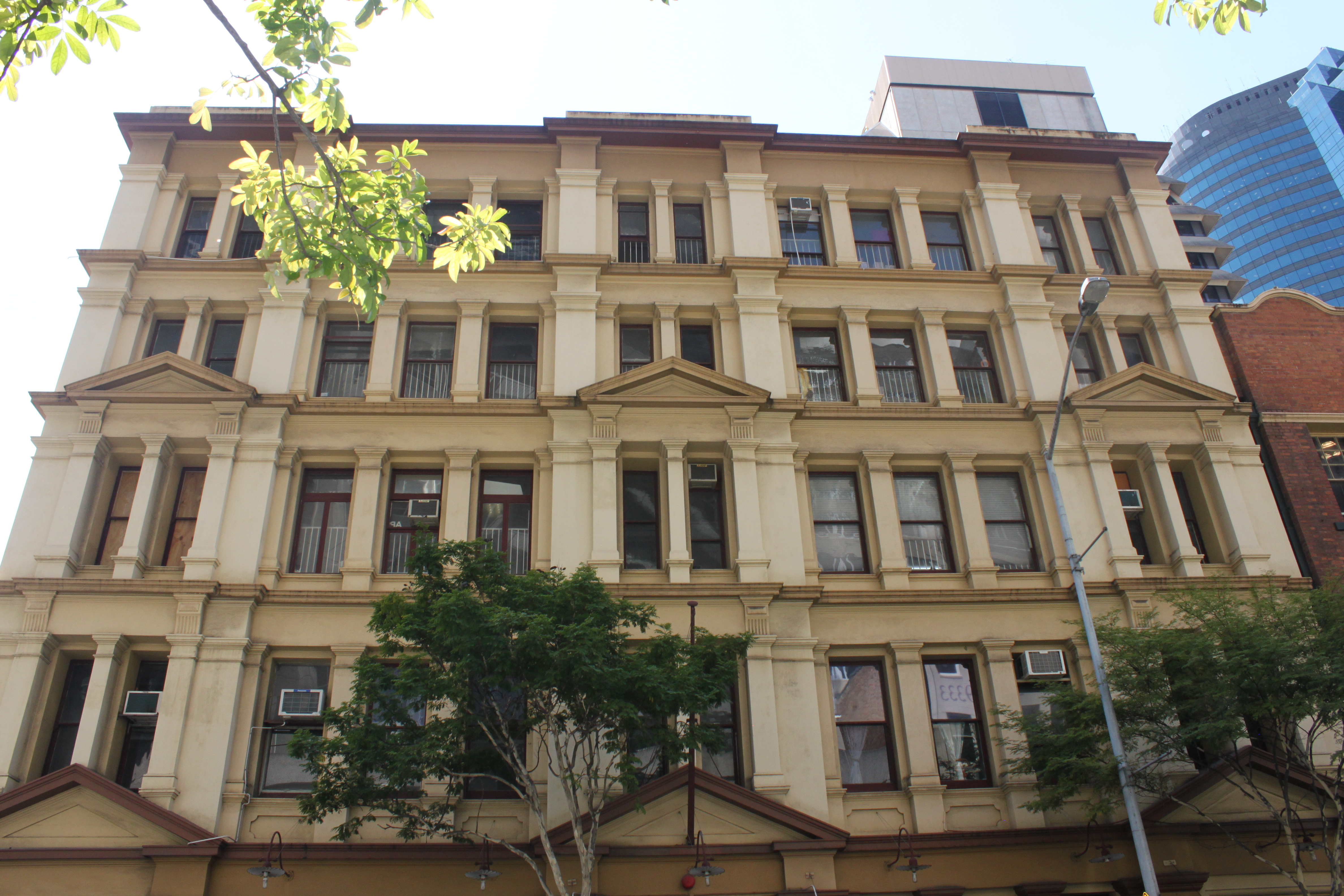 Richard Gailey's work